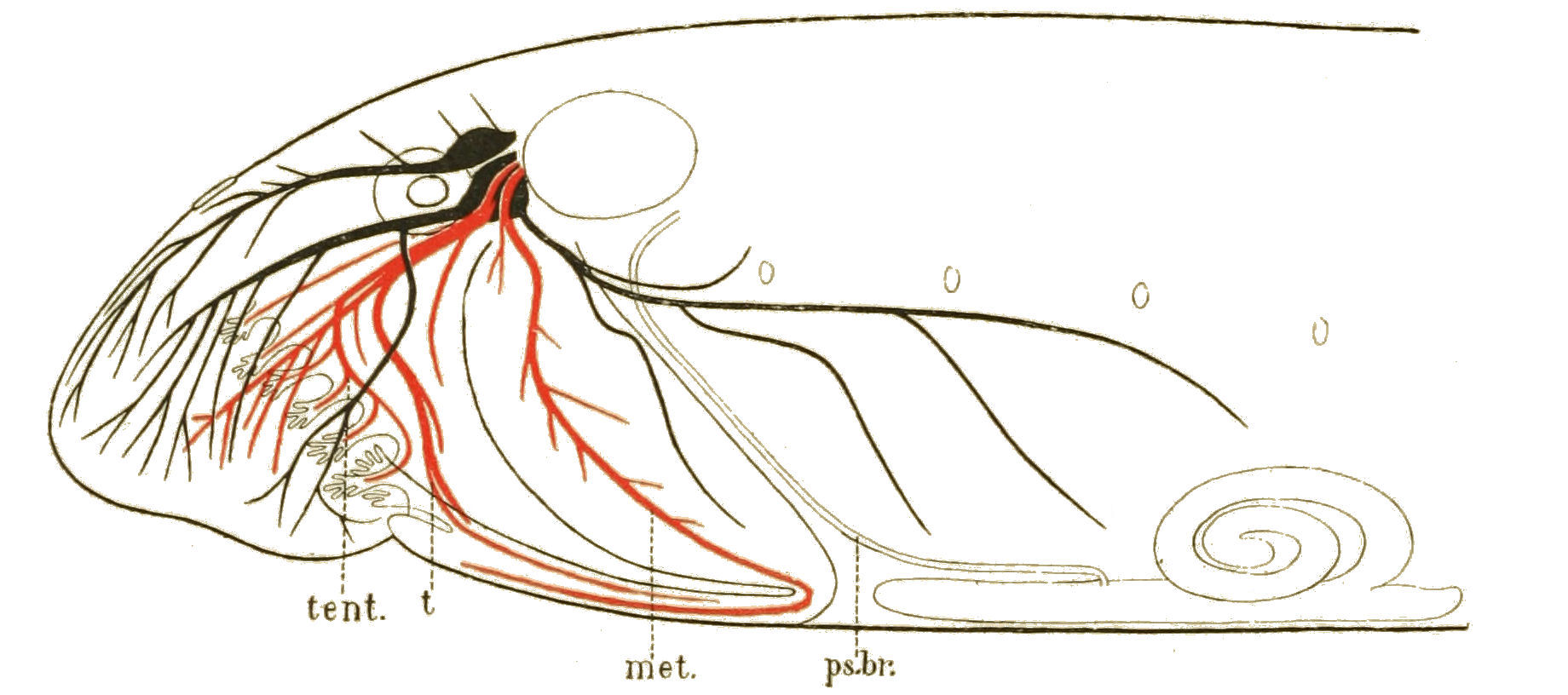 Fig. 114.—Distribution of Trigeminal Nerve in Ammocœtes. ps. br., pseudo-branchial groove; met., nerve to lower lip, or metastomal nerve; t., nerve to tongue; tent., nerve to tentacles. The mandibular and internal maxillary nerves are coloured red; the purely sensory nerves to the external surface are coloured black. (All references in this work to Ammocœtes or Petromyzon appear to refer to the species now called Lampetra planeri.)